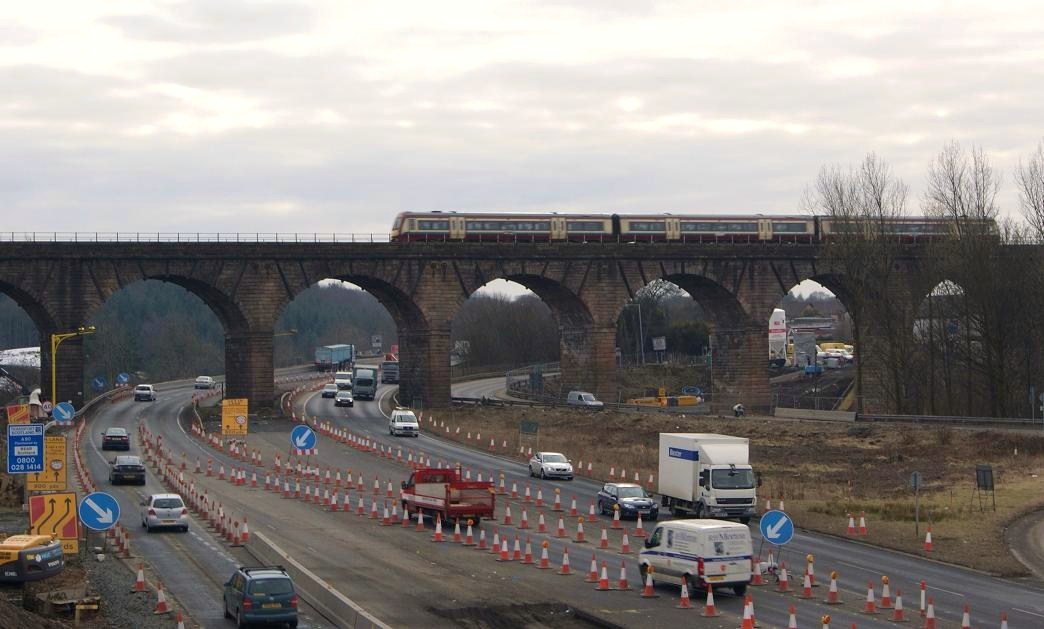 Castlecary Viaduct The A80 upgrade continues as a Glasgow-Edinburgh train crosses the viaduct.